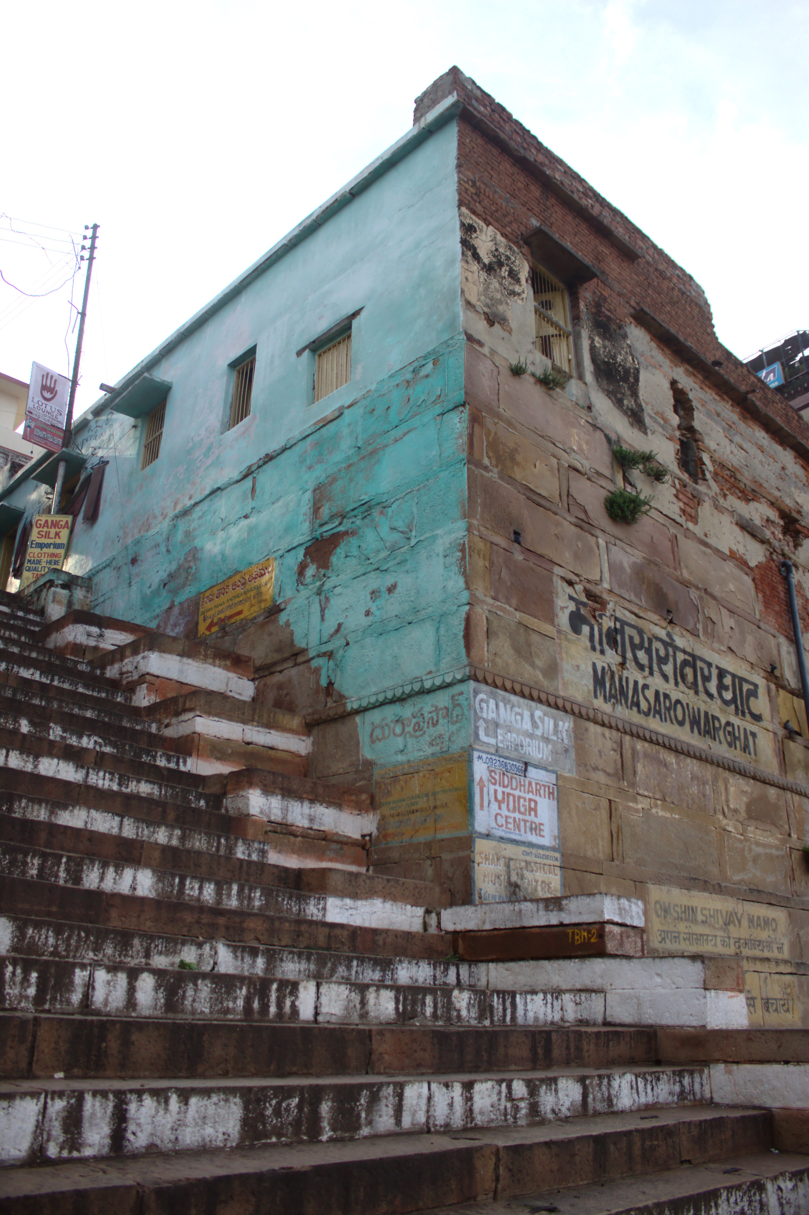 Manasowar Ghat in Varanasi, India